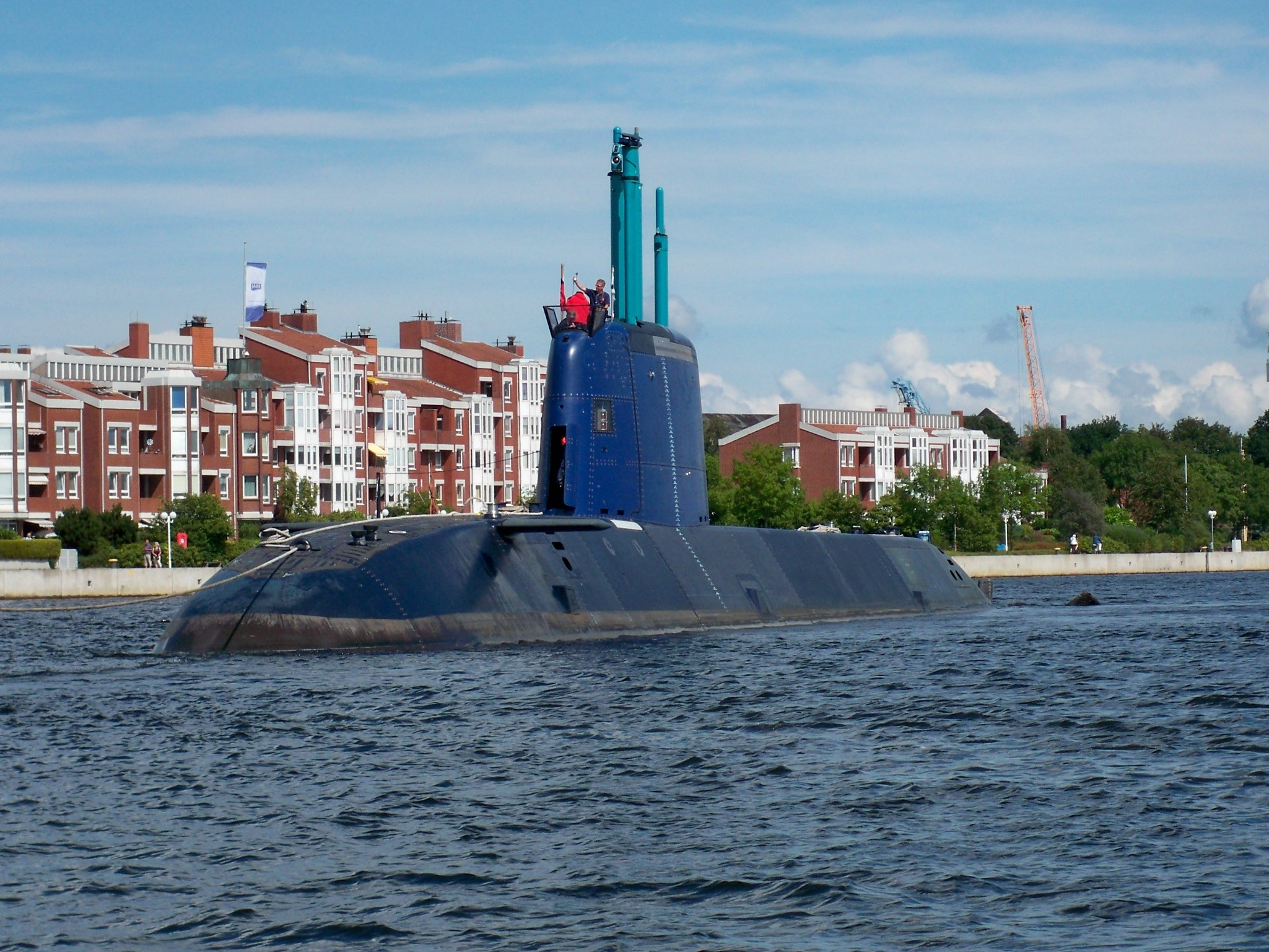 Not yet commissioned Israeli submarine Rahav conducting sea trials in the ports of Wilhelmshaven